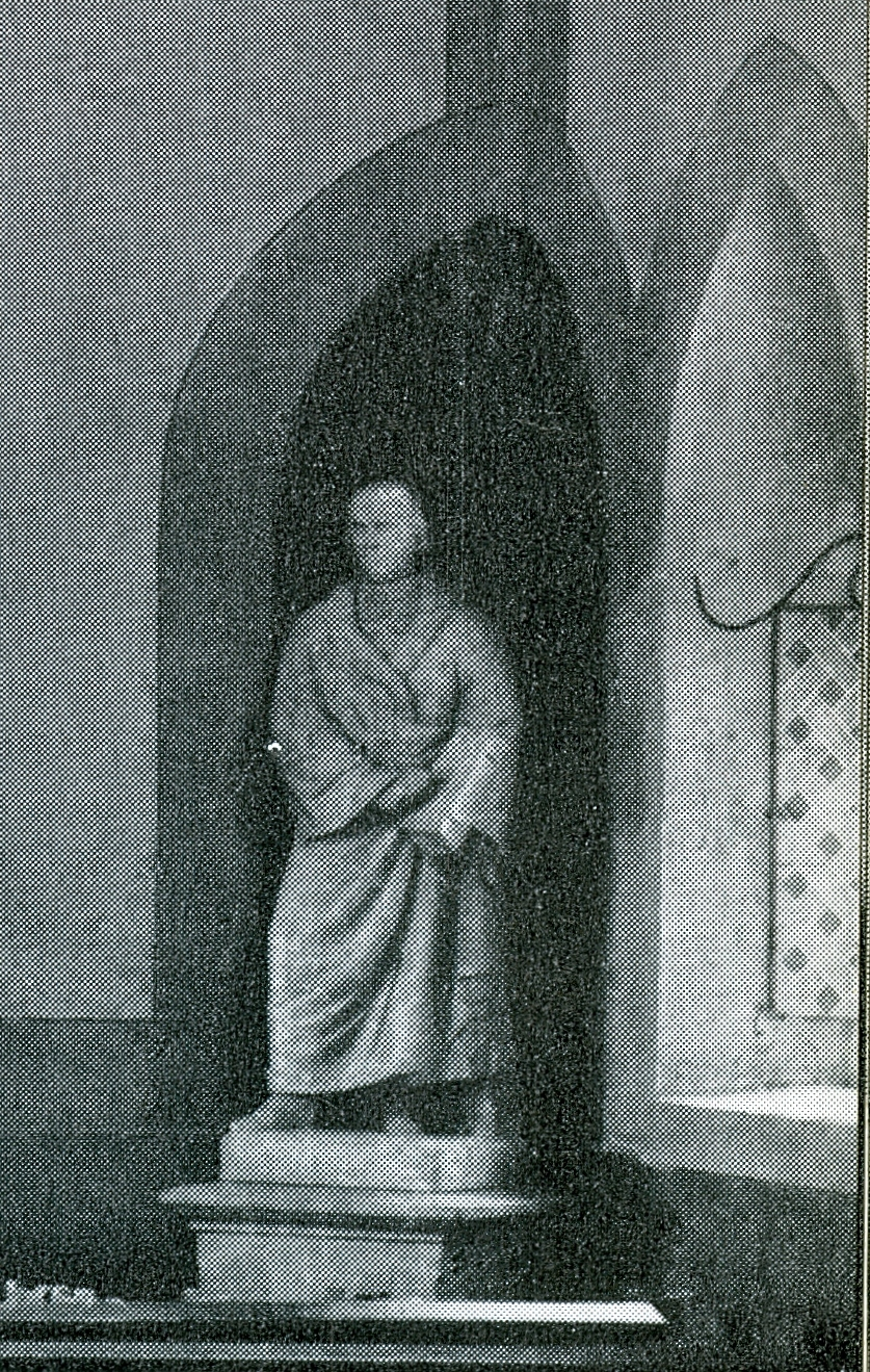 t